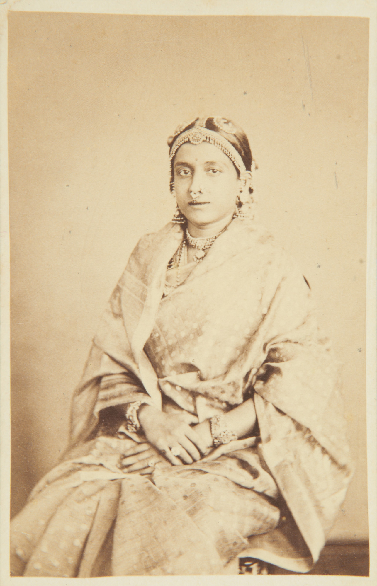 Photograph of the wife of the Maharajah of Travancore, seated in a three-quarters length portrait and facing the viewer with her hands crossed on her lap. She wears a Sari, with elaborate jewellery on her face and head.